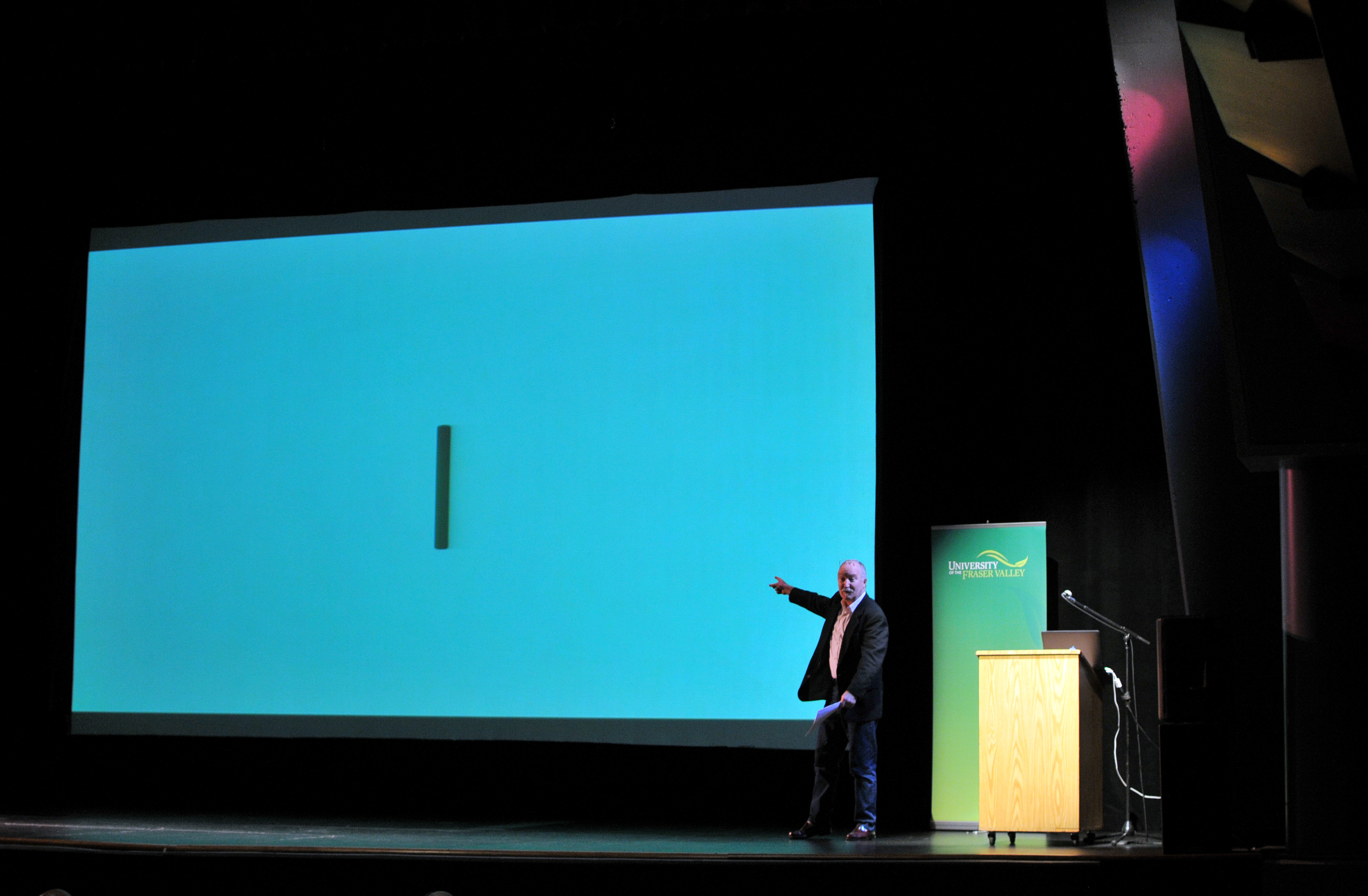 PechaKucha DUI at Clarke Theatre